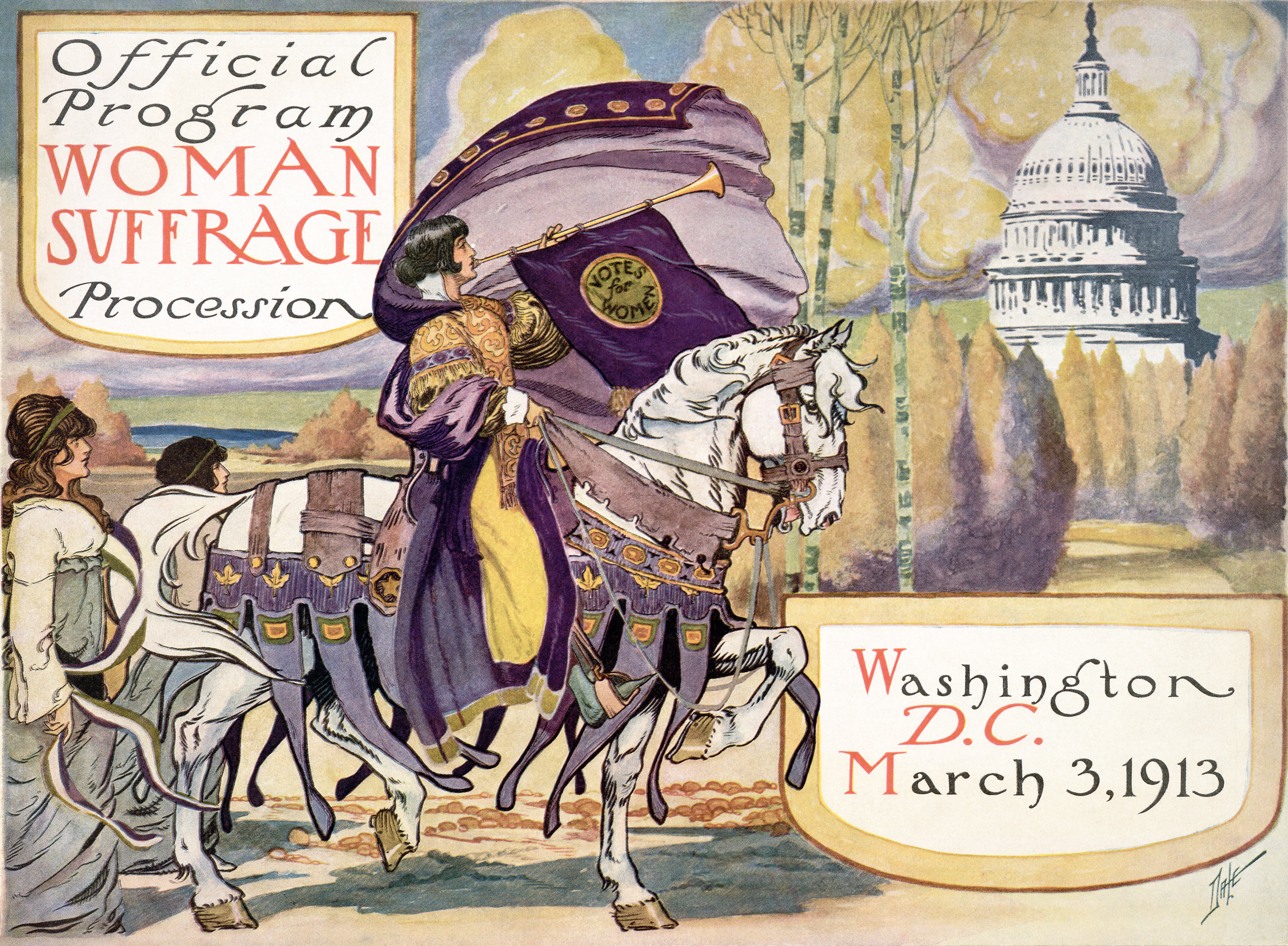 Official program - Woman suffrage procession, Washington, D.C. March 3, 1913. Cover of program for the National American Women's Suffrage Association procession, showing woman, in elaborate attire, with cape, blowing long horn, from which is draped a "votes for women" banner, on decorated horse, with U.S. Capitol in background.